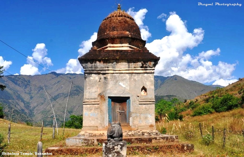 Shibalaya, Built by one of Rana Prime minister`s wife in Rana reign (A Historical Monument in Rukum)